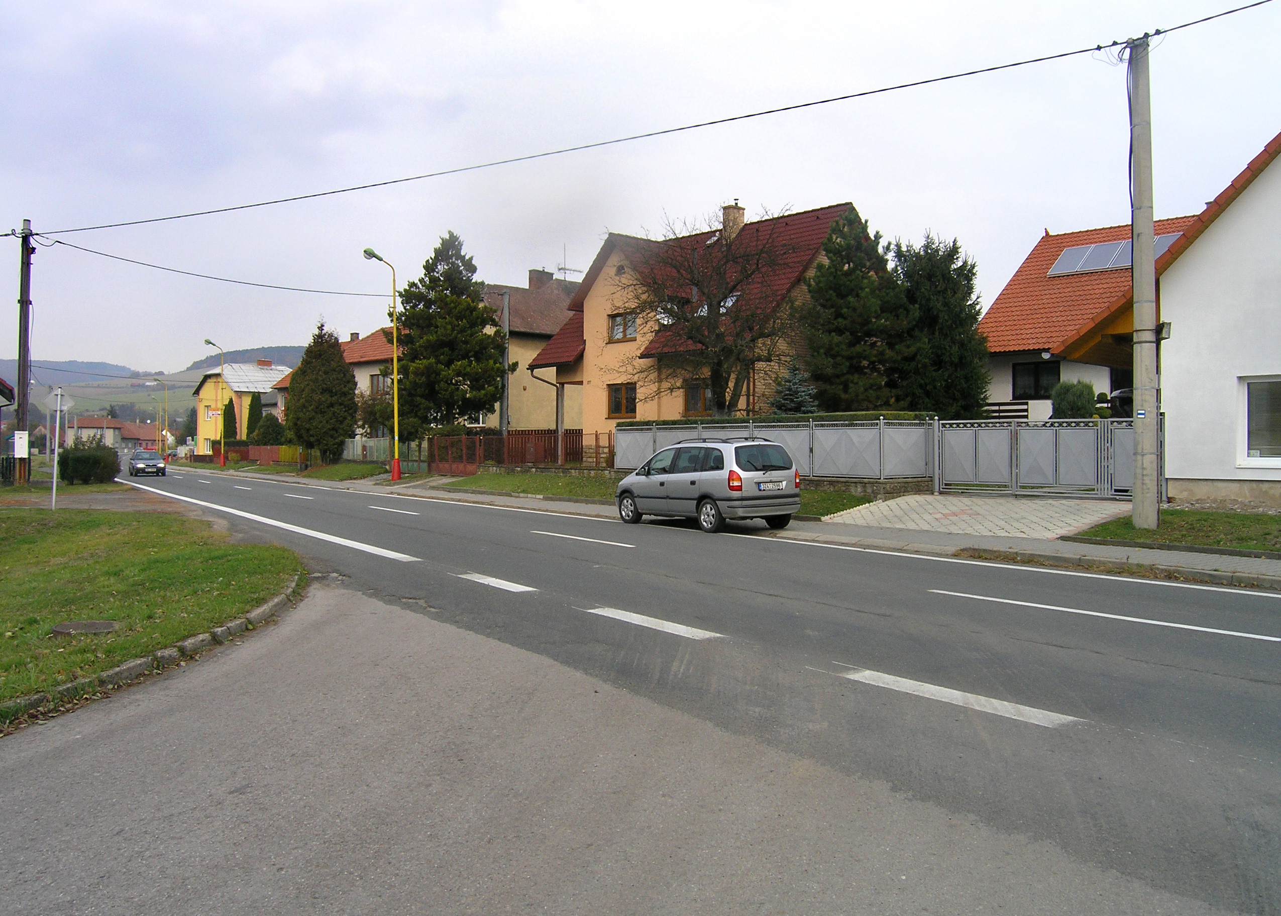 Vlárská street in Bylnice, part of Brumov-Bylnice, Czech Republic